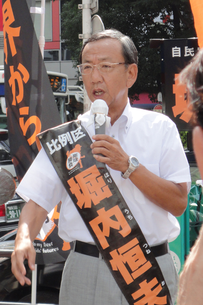 Tsuneo Horiuchi, making a campaign speech for the election.